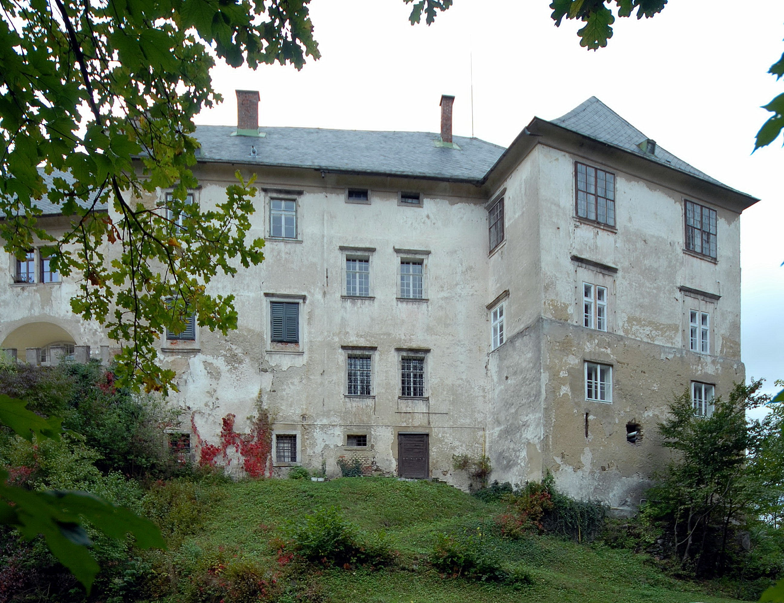 Castle of Bleiburg, municipality Bleiburg, district Voelkermarkt, Carinthia / Austria / EU